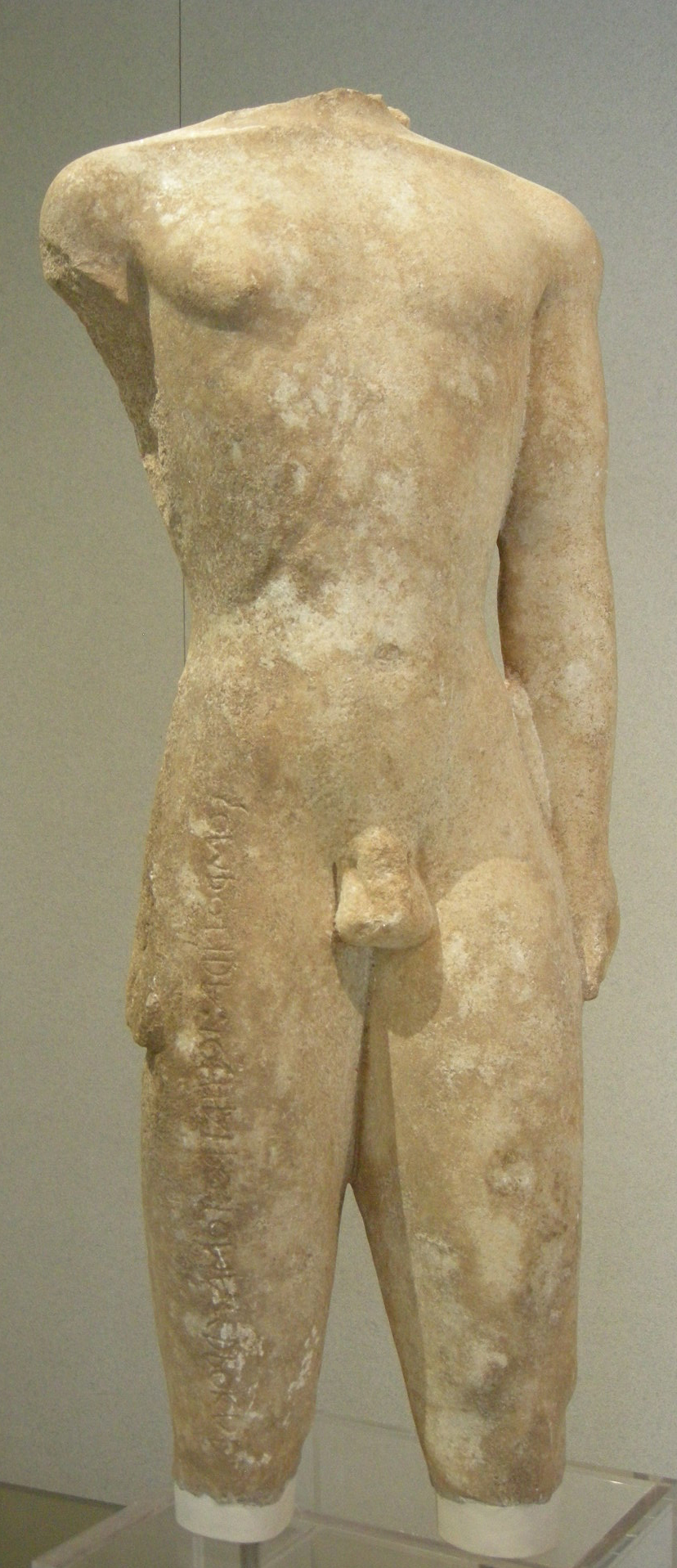 Funerary kouros, Ionic (naxian) effect. Around 550 BC. Found at the burial site in Megara Hyblea. Inscription in megarian (Greek-Sicilian) version alphabets identifies him: doctor Sombrotidés son of Mandrokles. Naxian marble, some finished works in Megara Hyblaea of naxian intermediate product. Archaeological Museum of Syracuse.